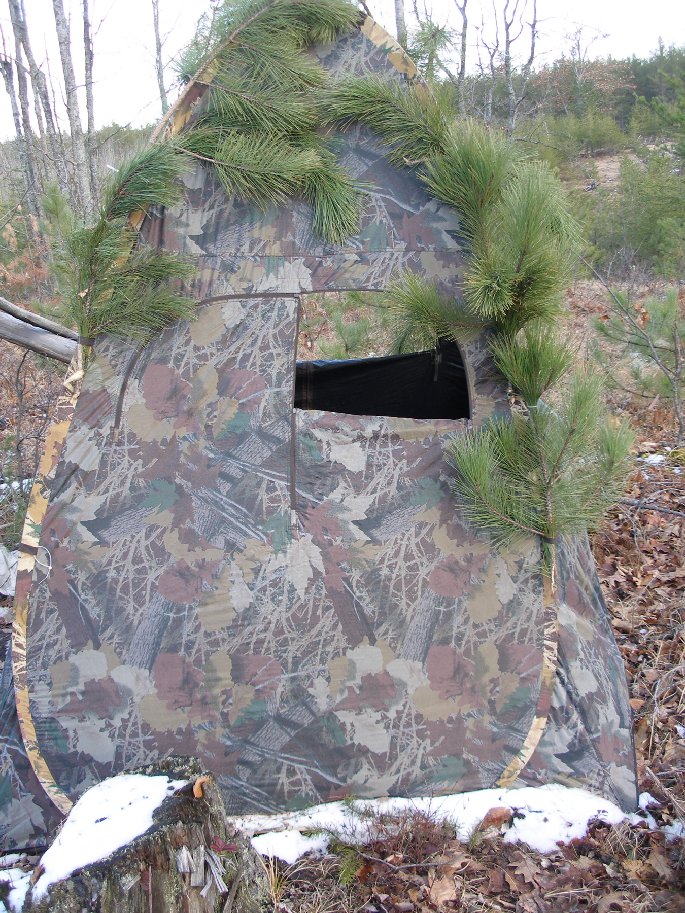 A pack-in or "pop-up" outhouse-type blind. Pine bows are extra.